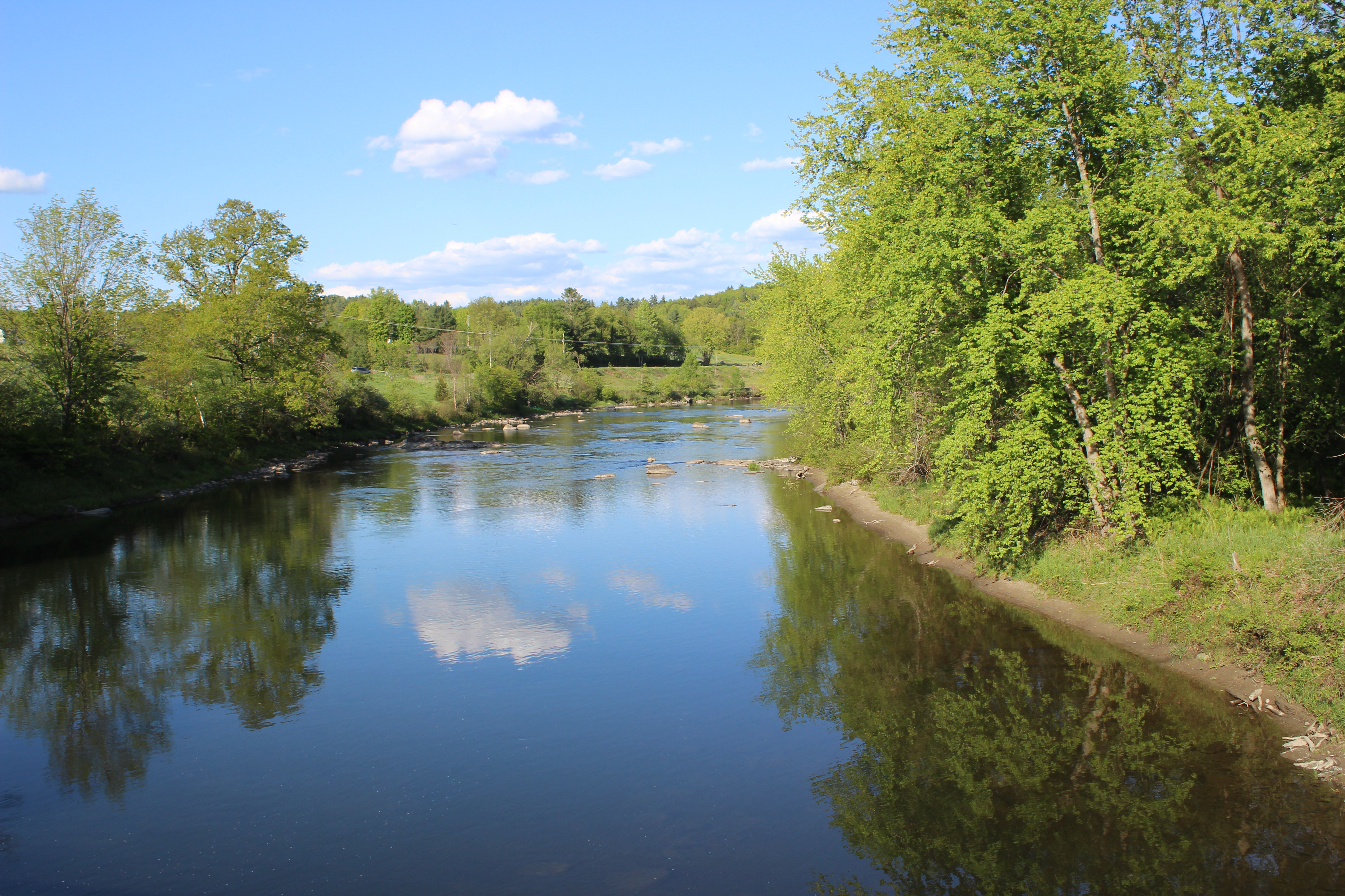 Spring Time in Northern Vermont